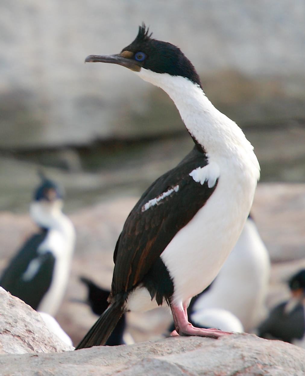 Imperial Shags in the Beagle Channel, southern Argentina